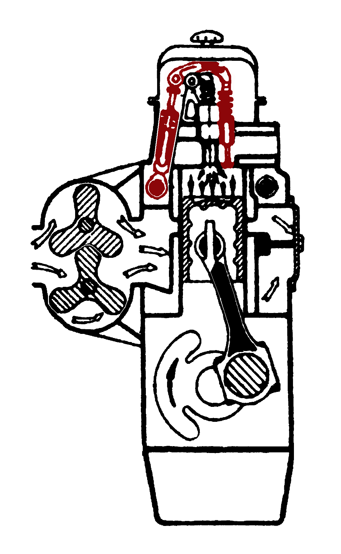 Two stroke diesel with semi-overhead cam design.